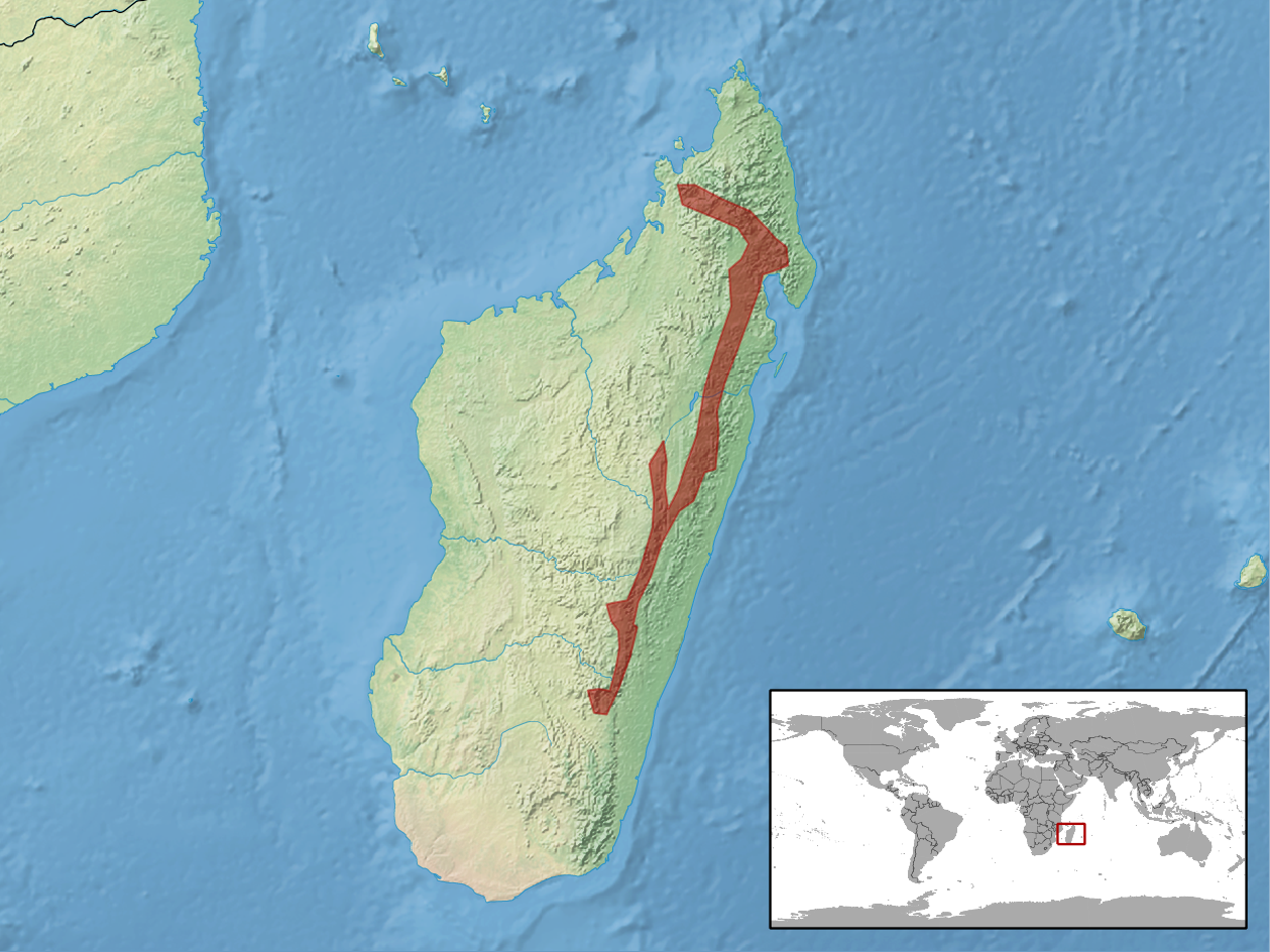 geographic distribution of Calumma parsonii (Native: Madagascar)